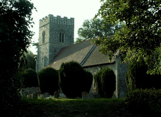 St Mary's parish church, Bentley, Suffolk, seen from the southeast